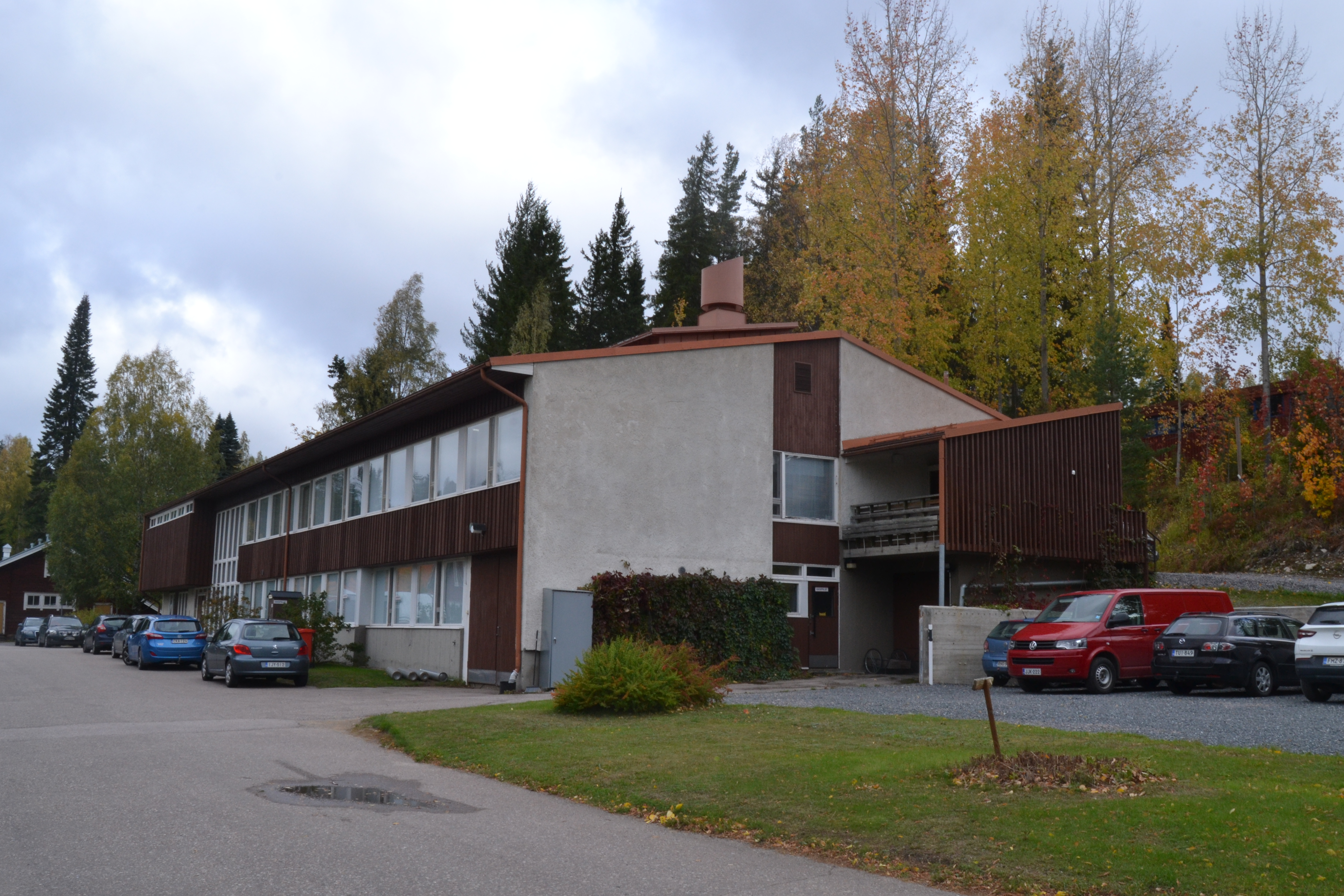 Instituutti building of Hyytiälä forestry field station